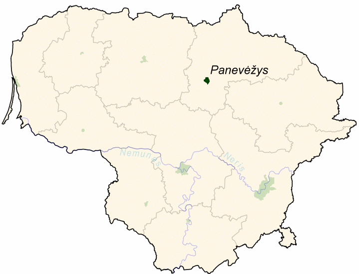 Panevėžys on the map of Lithuania